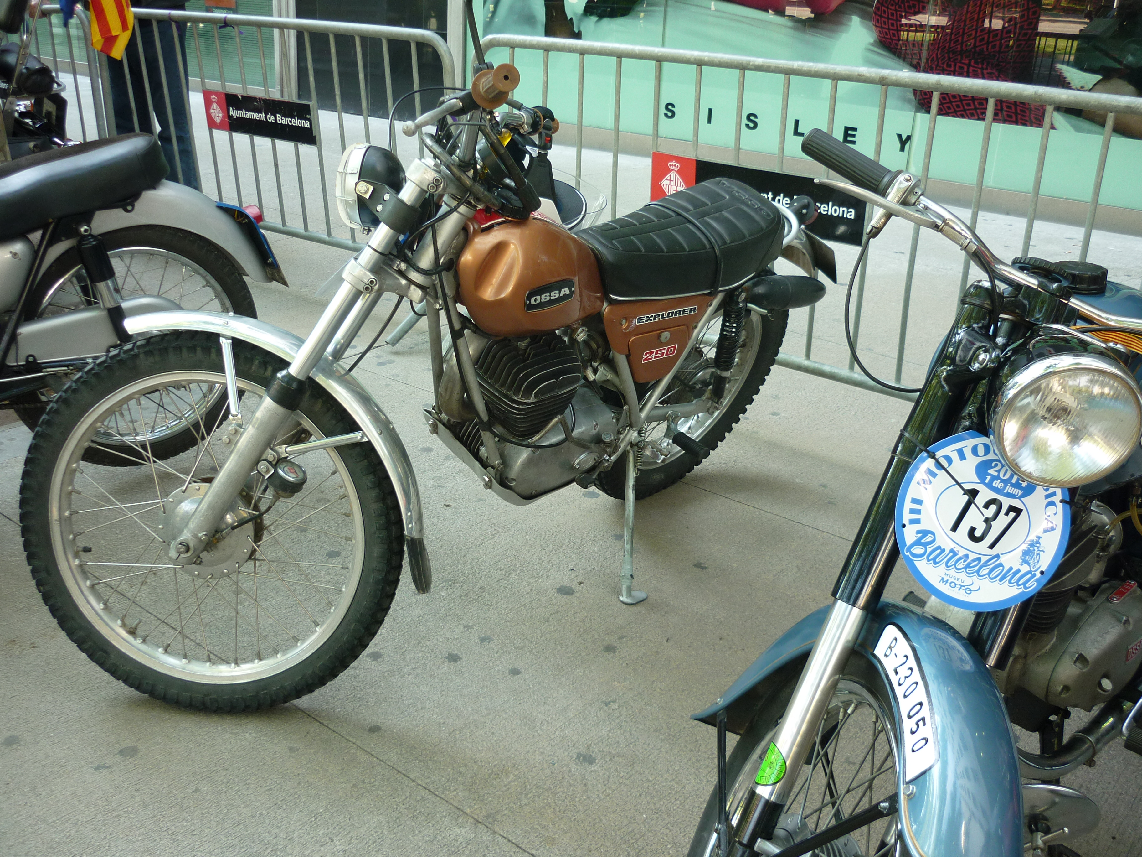 Ossa Explorer 250, 1973